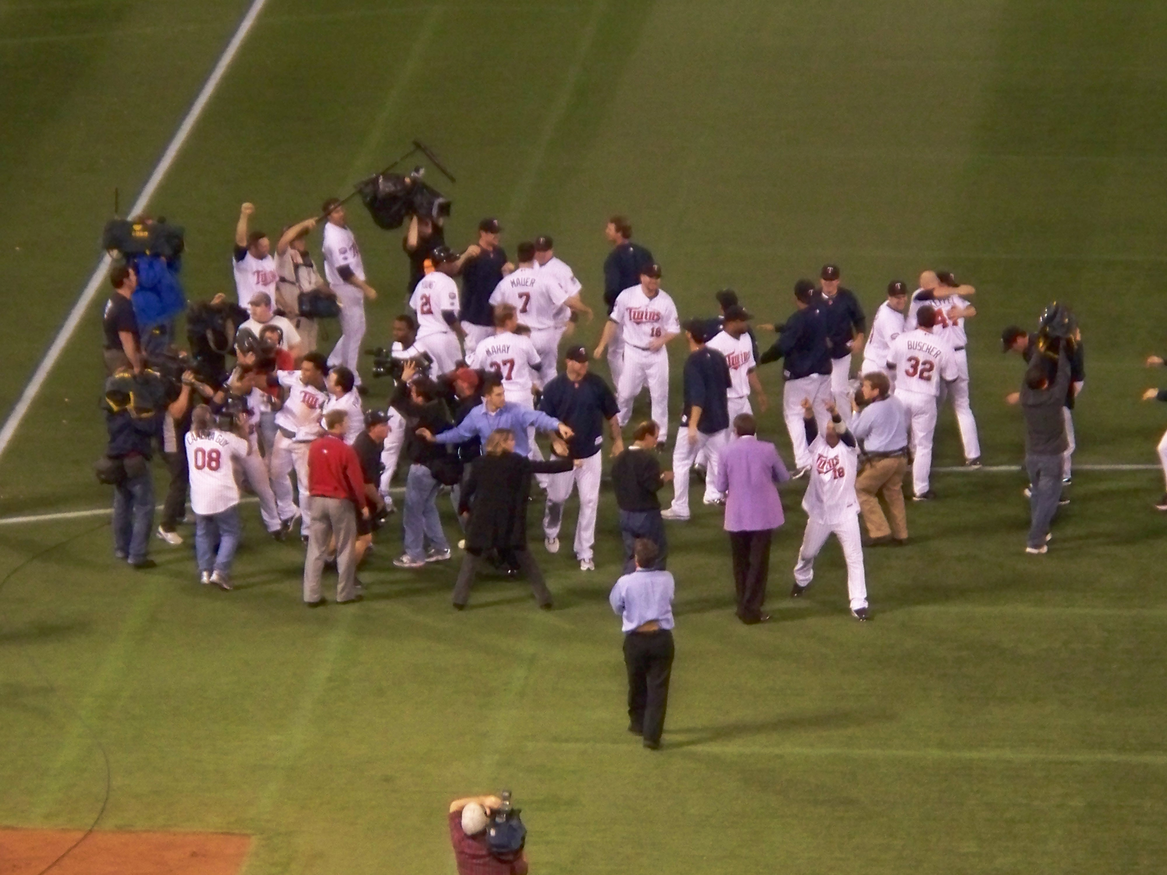 2009 Minnesota Twins celebrate a victory over the Detroit Tigers in Game 163 to win A.L. Central division title.